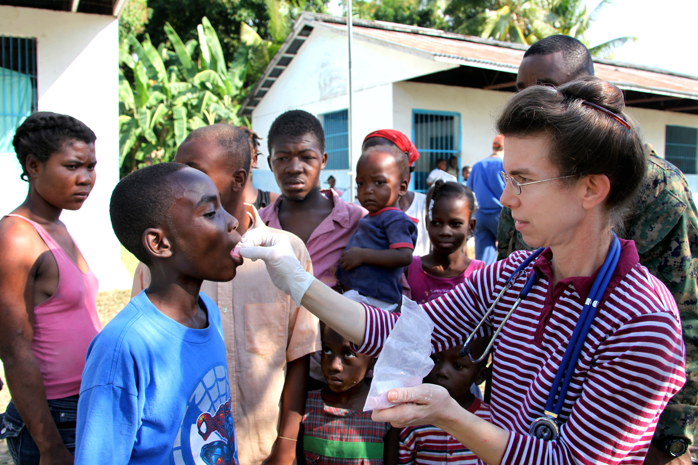 Hannah McDowell, an aid worker with God’s Missionary Church in Penn’s Creek, Pa., administers medicine to a Haitian child in Leogane, Haiti, Jan. 24, 2010. U.S. Marines flew into the area to establish a new humanitarian aid receiving area for Haitian earthquake victims at a missionary compound.